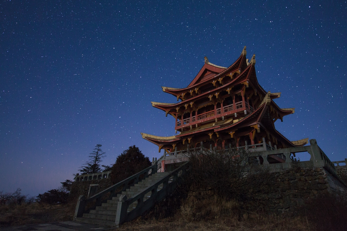 Northern stars of the big dipper and Constellation Leo shines above the Wanfo Summit at the World Heritage site of Mount Emei in China. Mount Emei is a place of historical significance as one of the four holy lands of Chinese Buddhism. And for the meaning of Wanfo, is the house of the mountain’s patron deity, Bodhisattva Samantabhadra, with ten southand of buddhas around it. As well as the other 30 ones at Mount Emei, this temple is in local traditional style, making full use of the terrain. The advanced architectural and building techniques are the quintessence of Chinese temple architecture.